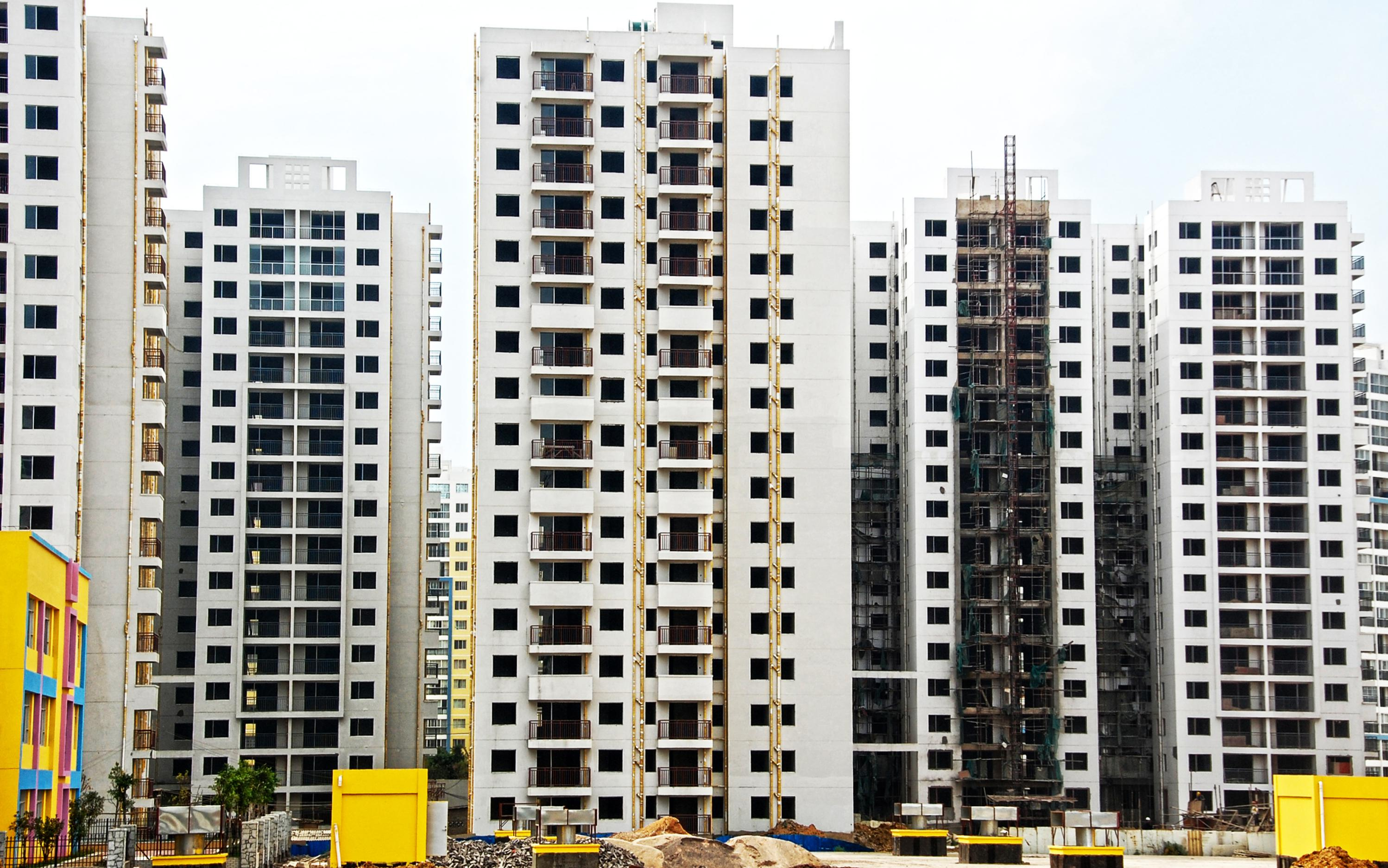 Abandoned residential complexes in the Chenggong district, Kunming, Yunnan. Photo: Matteo Damiani